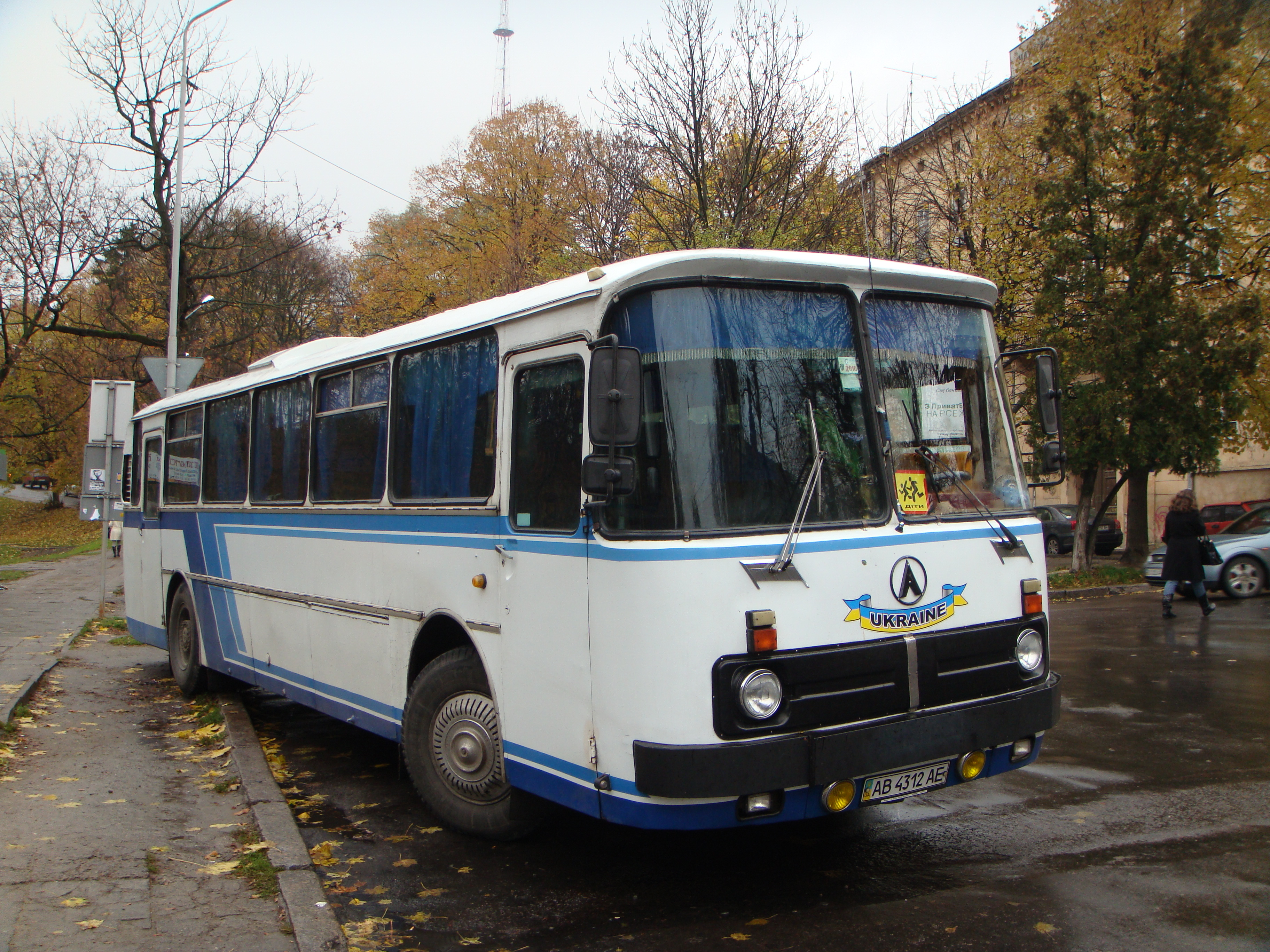 LAZ 699 bus (AB 4312 AE) of Ternopil region in Lviv, Ukraine.